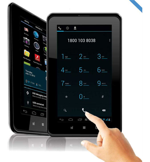 India`s first 7 inch Smartphone tablet, with high speed 3G